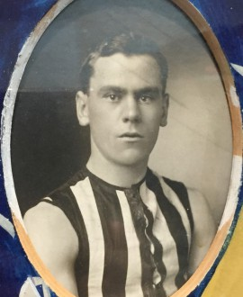 Photograph of Roy Crisp in 1910